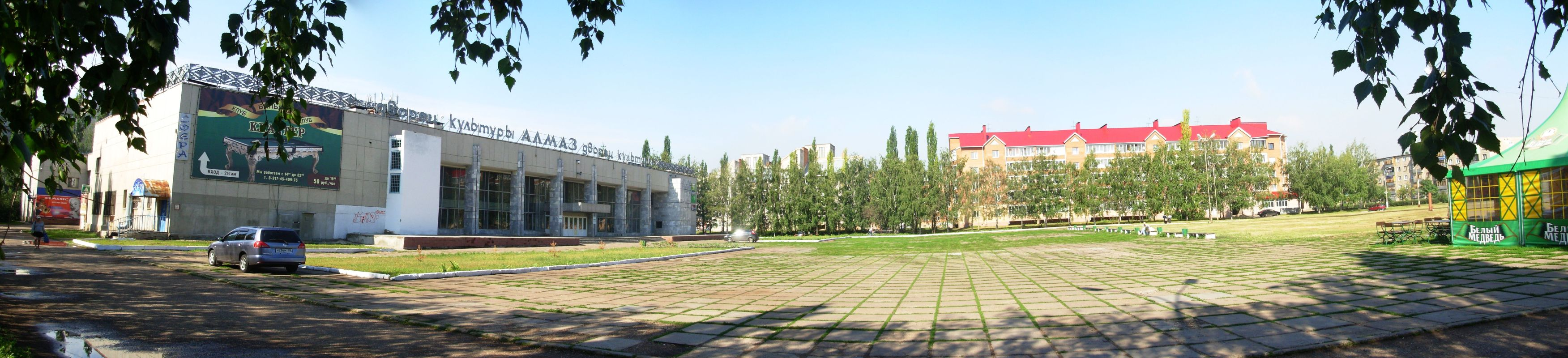 town